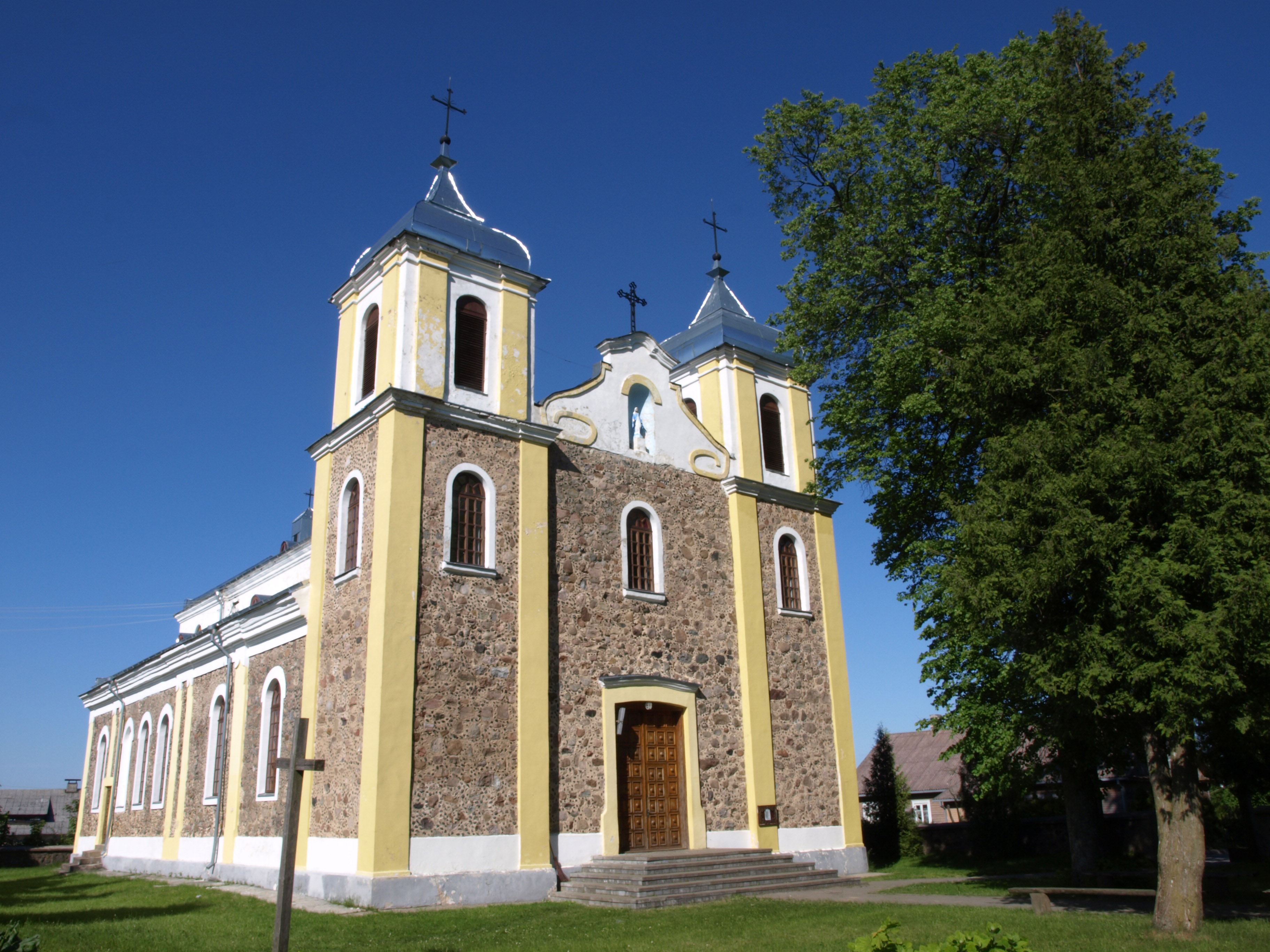 Rūkainiai church, Vilnius district, Lithuania